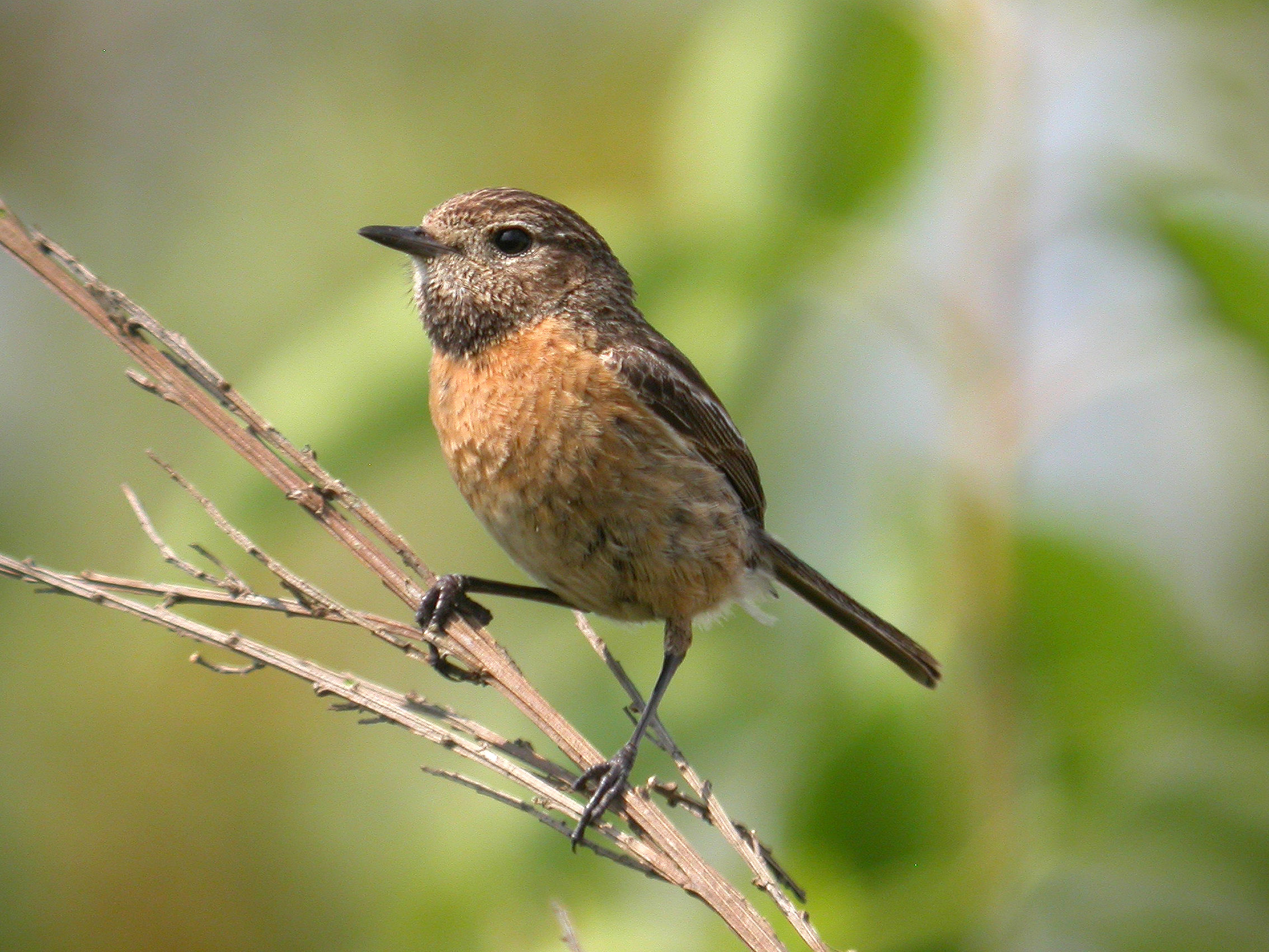 A female European Stonechat in Belgium.